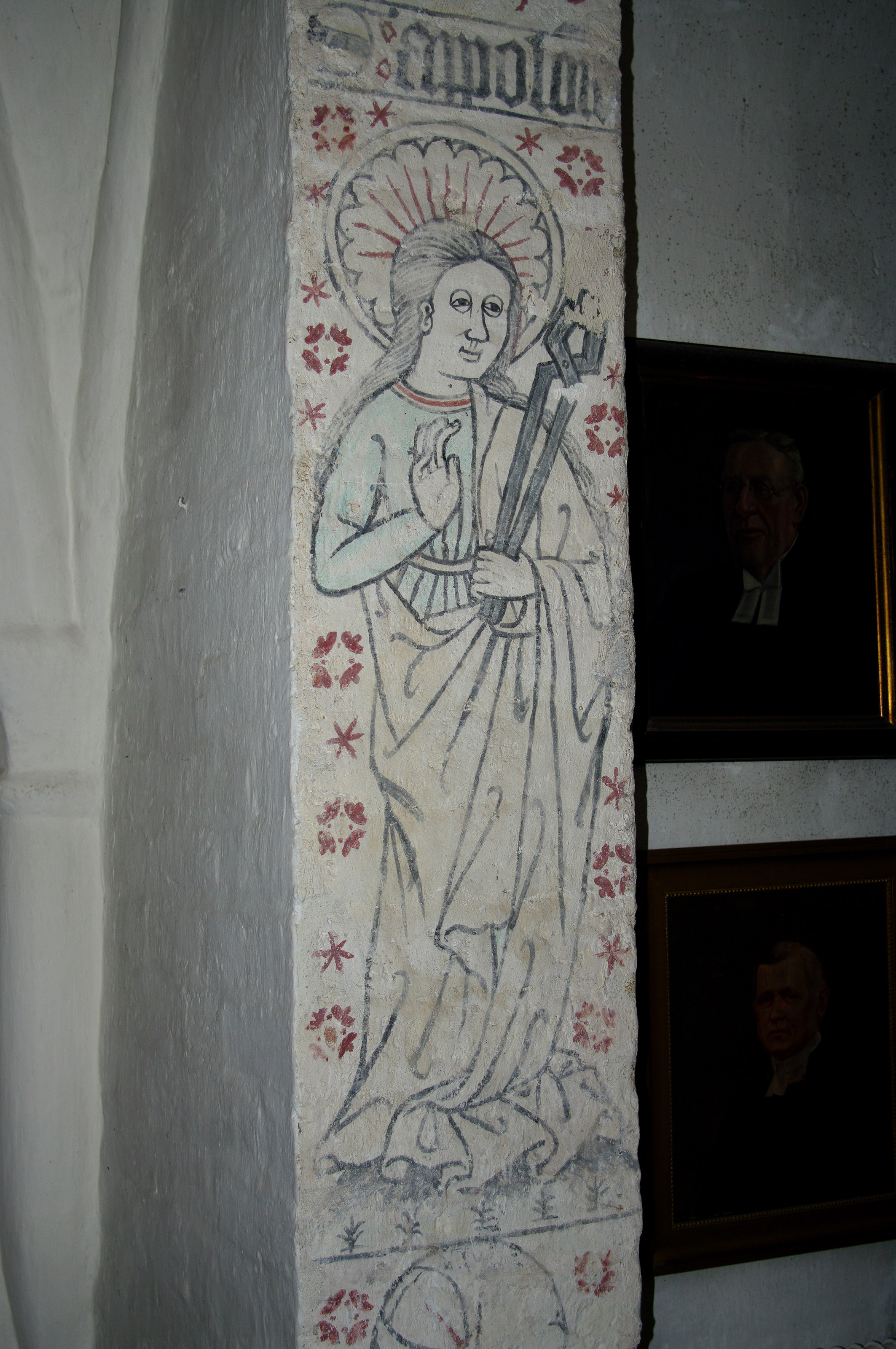 The saint Appolonia in the monastry of Bosjo in Scania, Sweden.